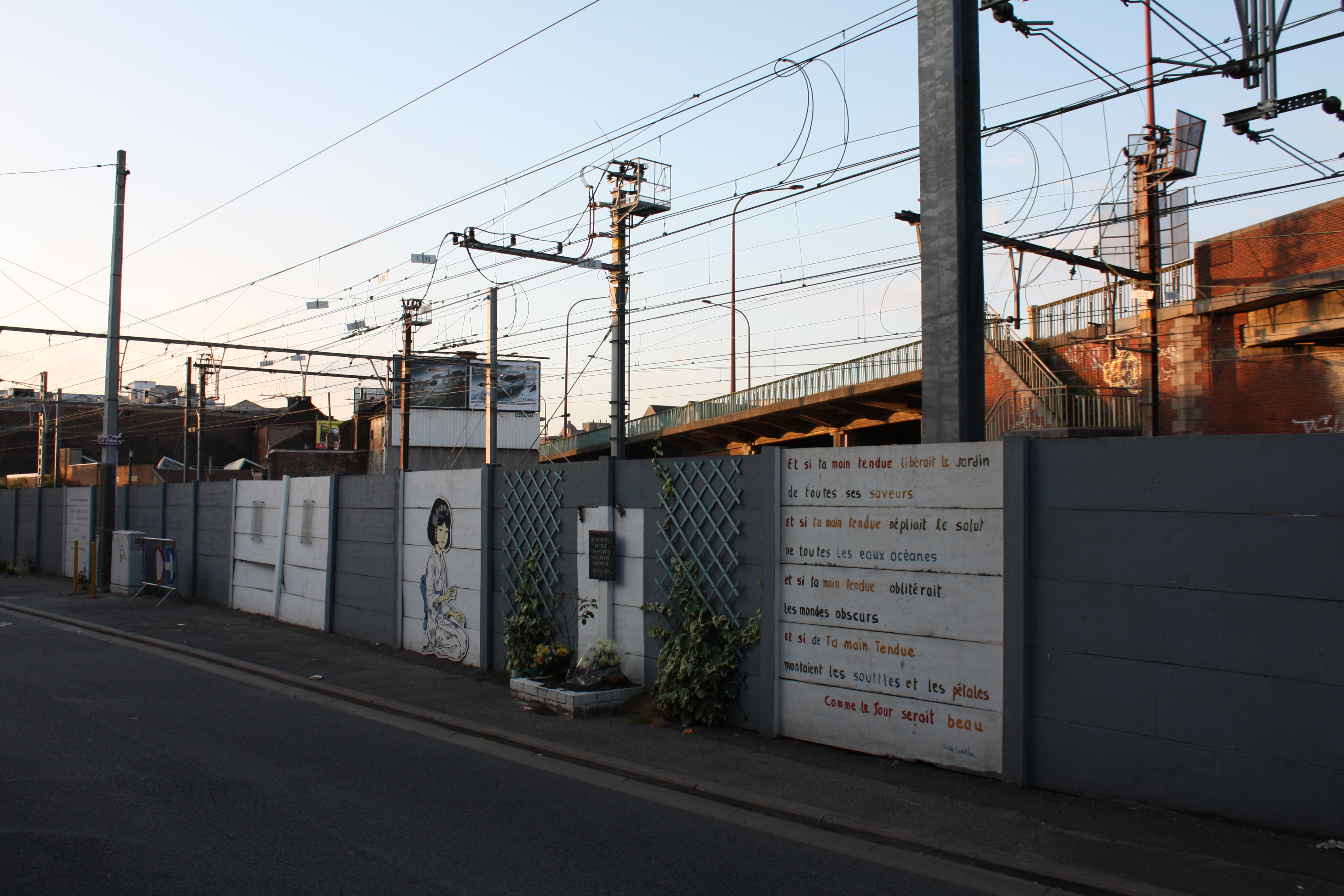 Murals, remembering the acts of Marc Dutroux, opposite a house formerly owned by him at the Avenue Philippeville 128, Marcinelle, Belgium